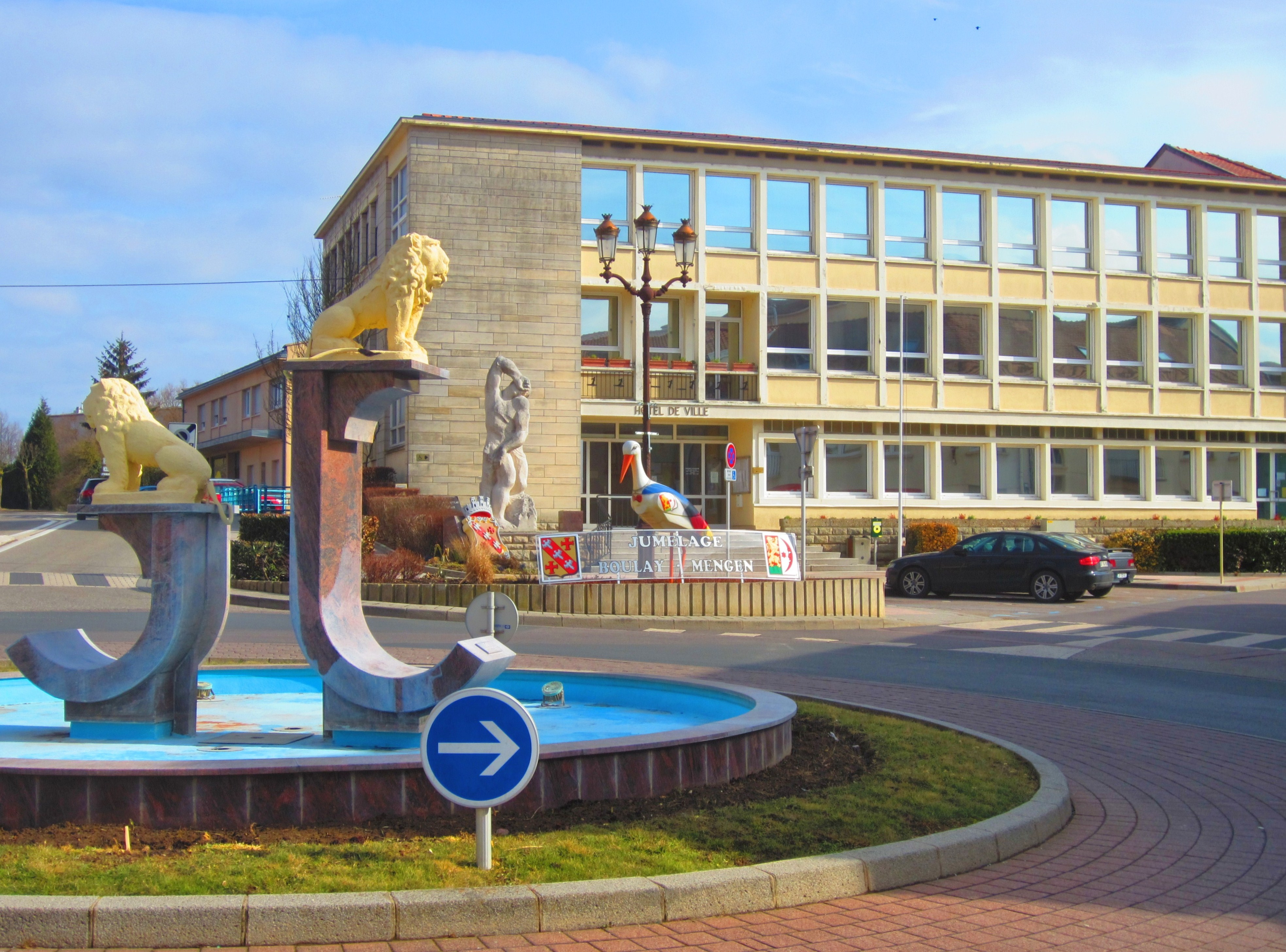 Mairie Boulay Moselle town council